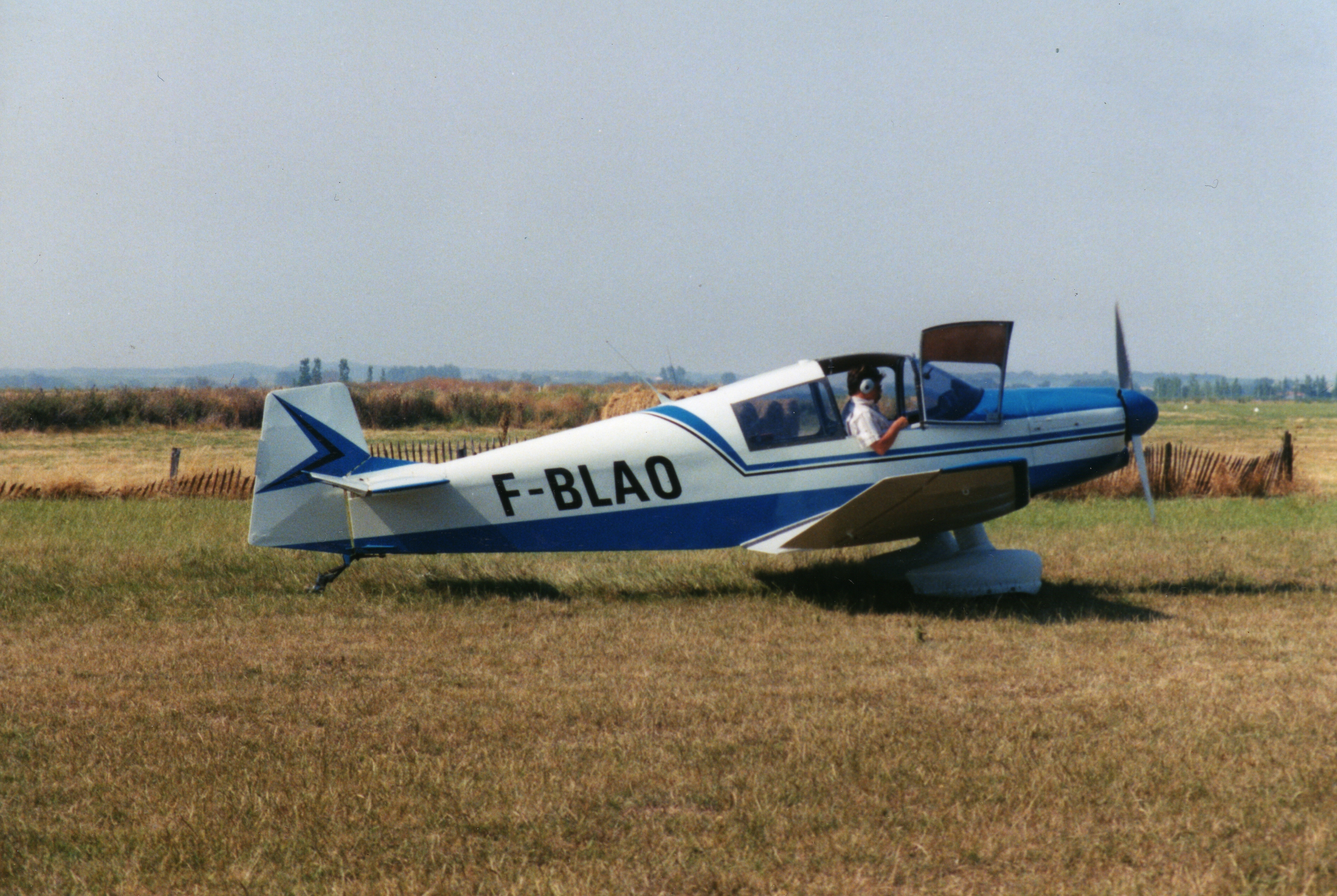 Jodel/Robin DR1051 aircraft, Aérodrome de La Tranche-sur-Mer, La Tranche-sur-Mer, Vendée, France, July 1995